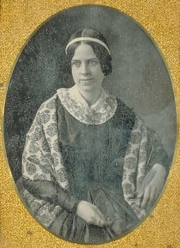 Daguerreotype of poet and abolitionist Maria White (1821-1853), wife of James Russell Lowell, photographed in Philadelphia in 1845. bMS Am 1054-1054.5, Houghton Library, Harvard University